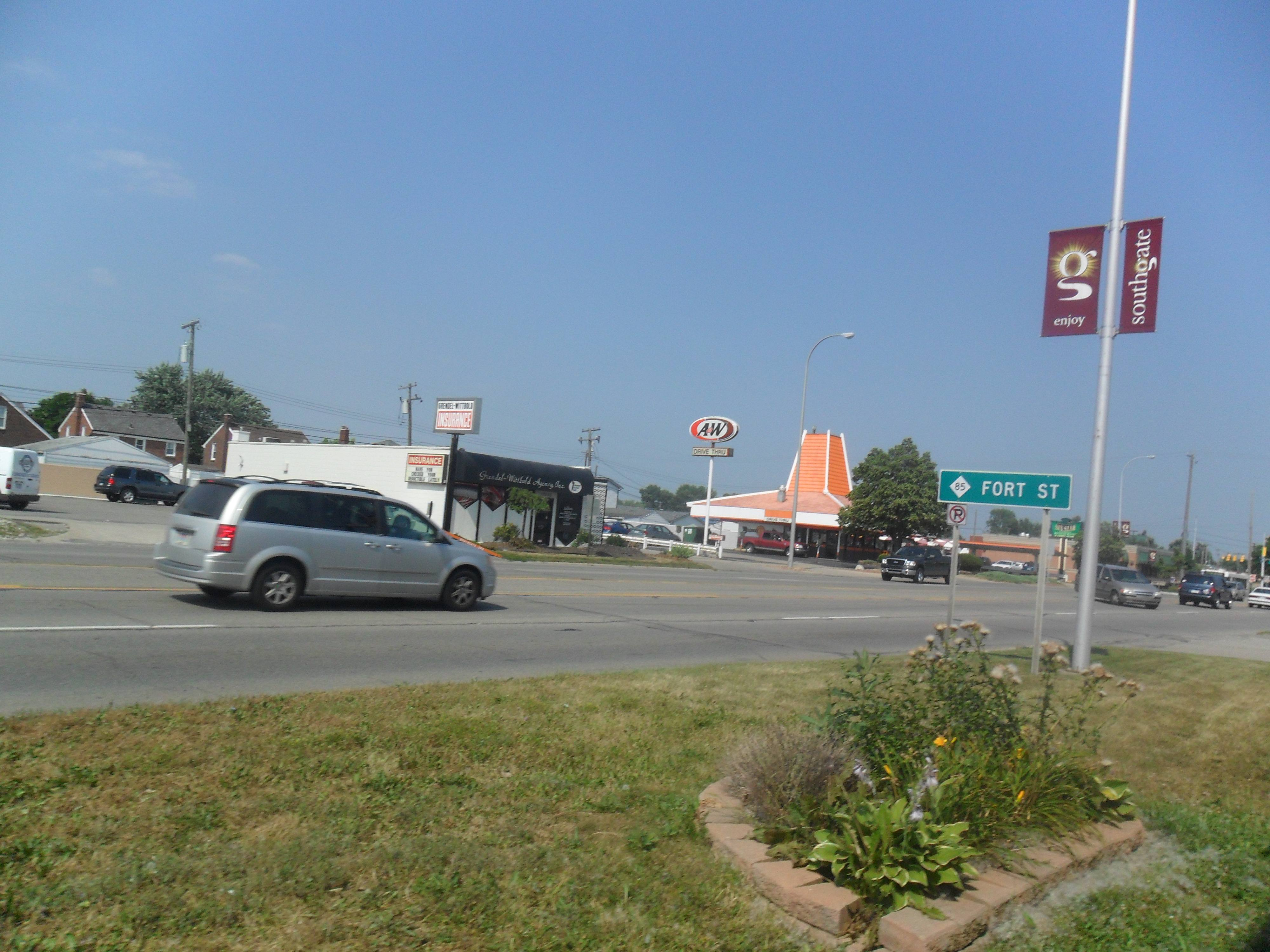 Eureka Road in Old Homestead. Taken by me on July 22, 2014.